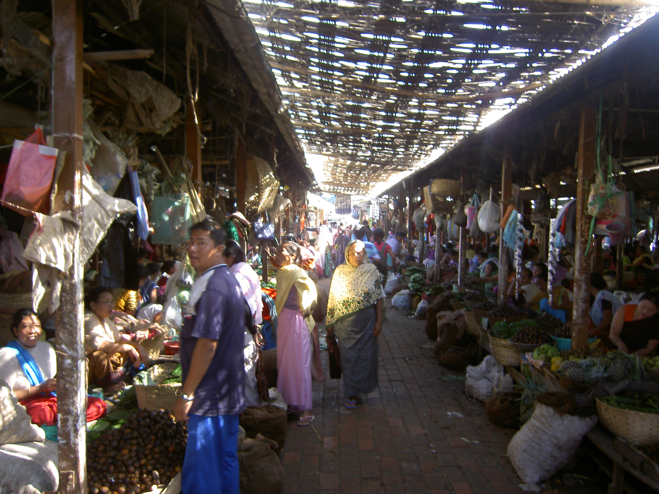 The women market in Imphal - Manipur - India (buria bazar)